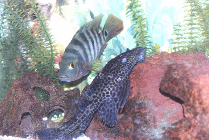 Captive Mayan cichlid Cichlasoma urophthalmus and armored suckermouth catfish Pterygoplichthys gibbiceps.